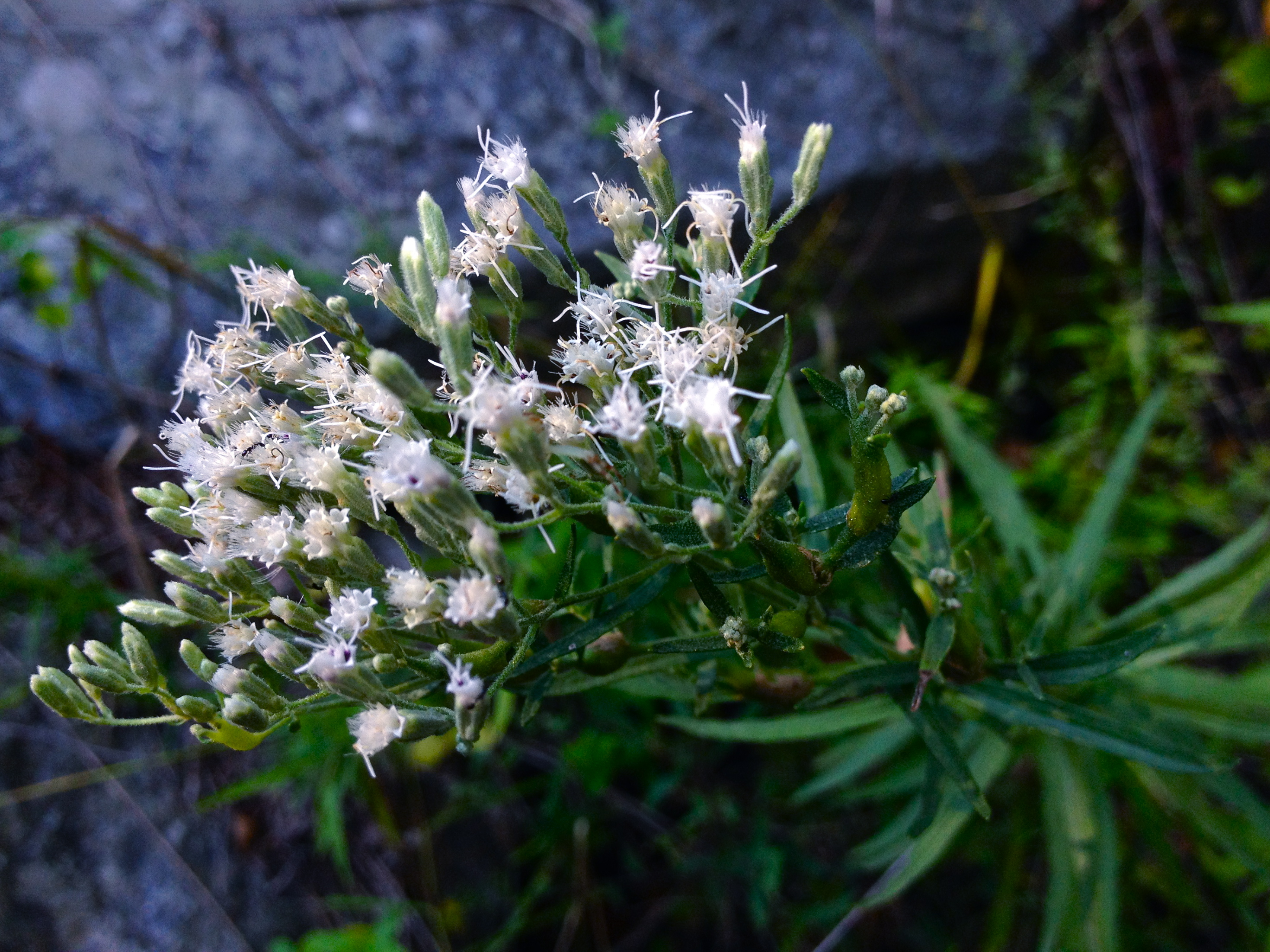 Photo of Eupatorium hyssopifolium in flower. This is a native plant growing wild in Great Falls Park, Fairfax county Virginia, USA. This species is a member of the Asteraceae family.